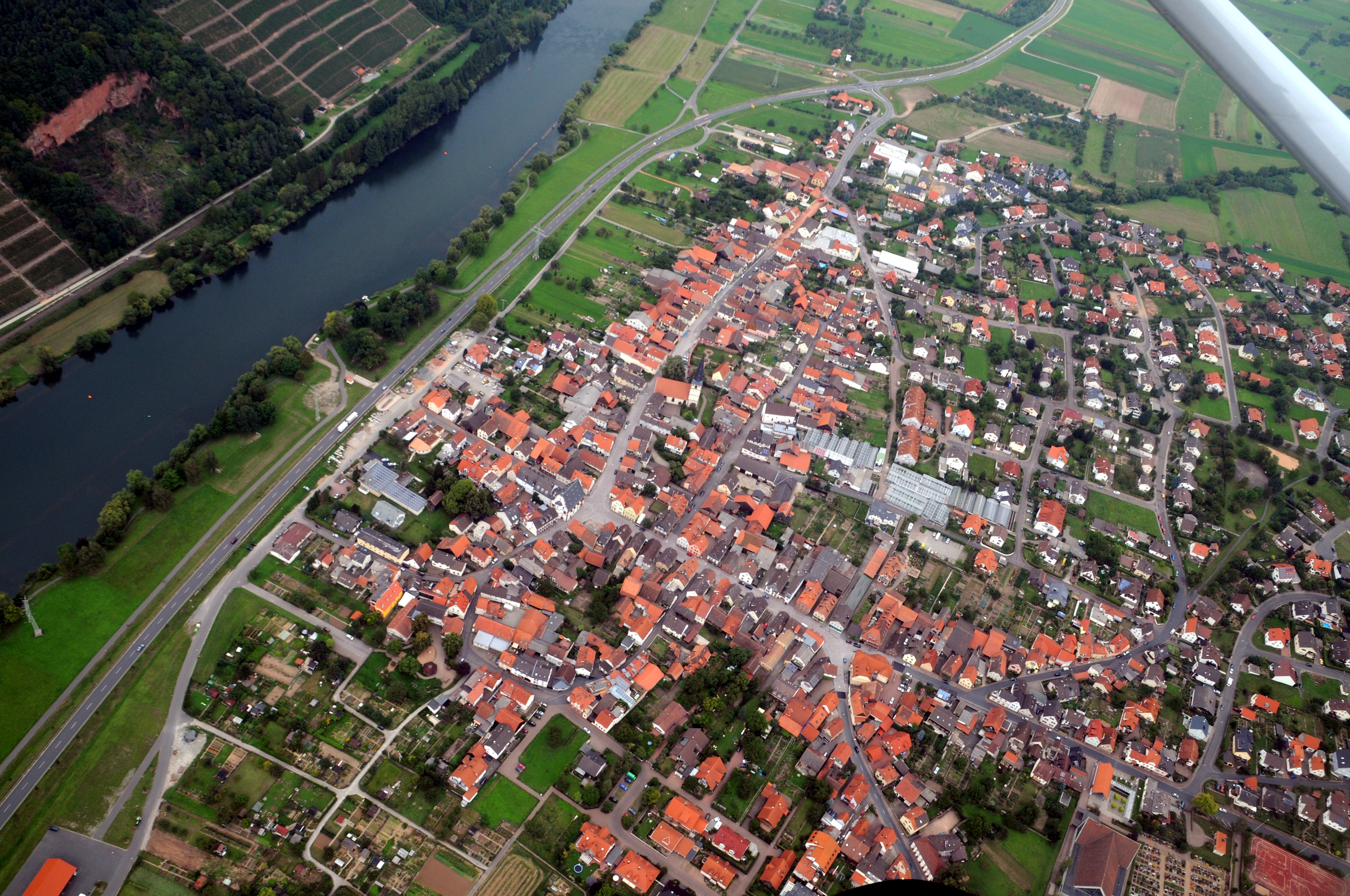 Bürgstadt, Bavaria, Germany, aerial photograph